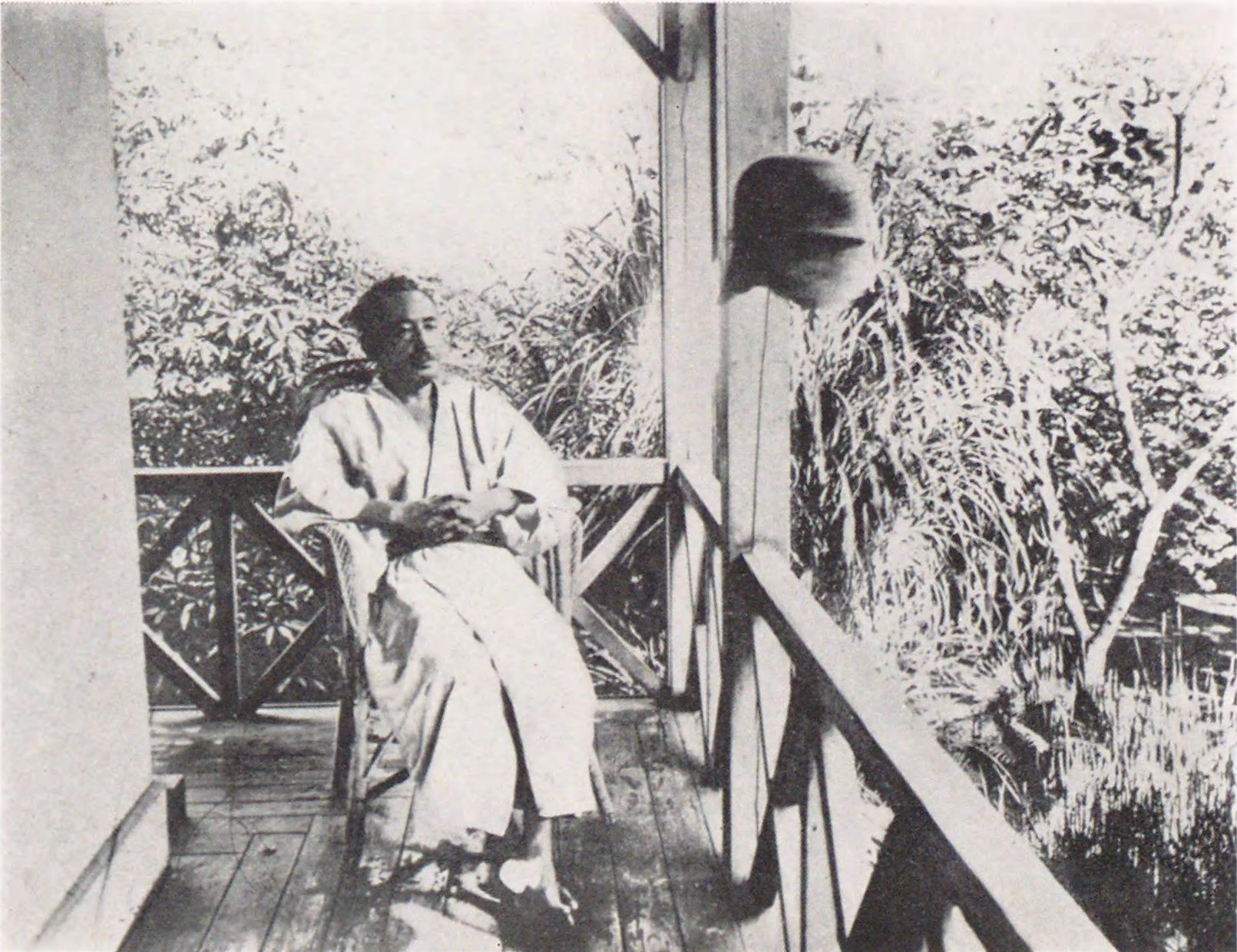 Natsume Soseki at Soseki Sanbo in July 1915.